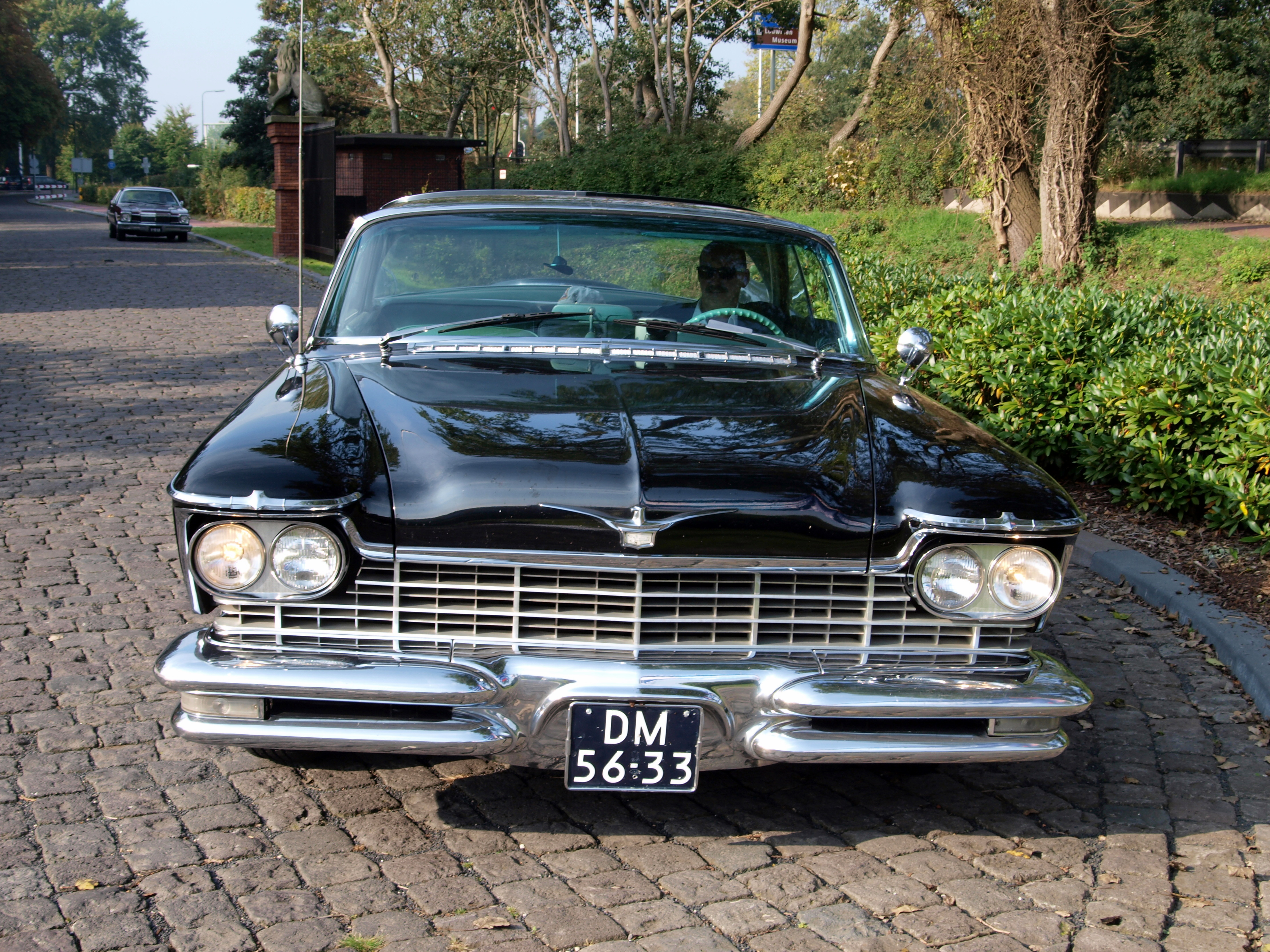 Photographed at the premmesis of the Louwman museum, The Hague, The Netherlands. OLYMPUS DIGITAL CAMERA